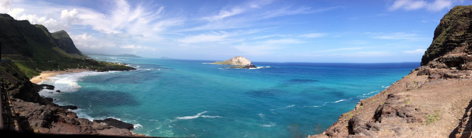 Makapu'u lookout, Oahu, Hawaii